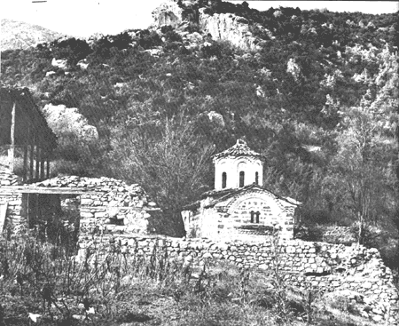 Pološko Monastery near Kavadarci, Macedonia